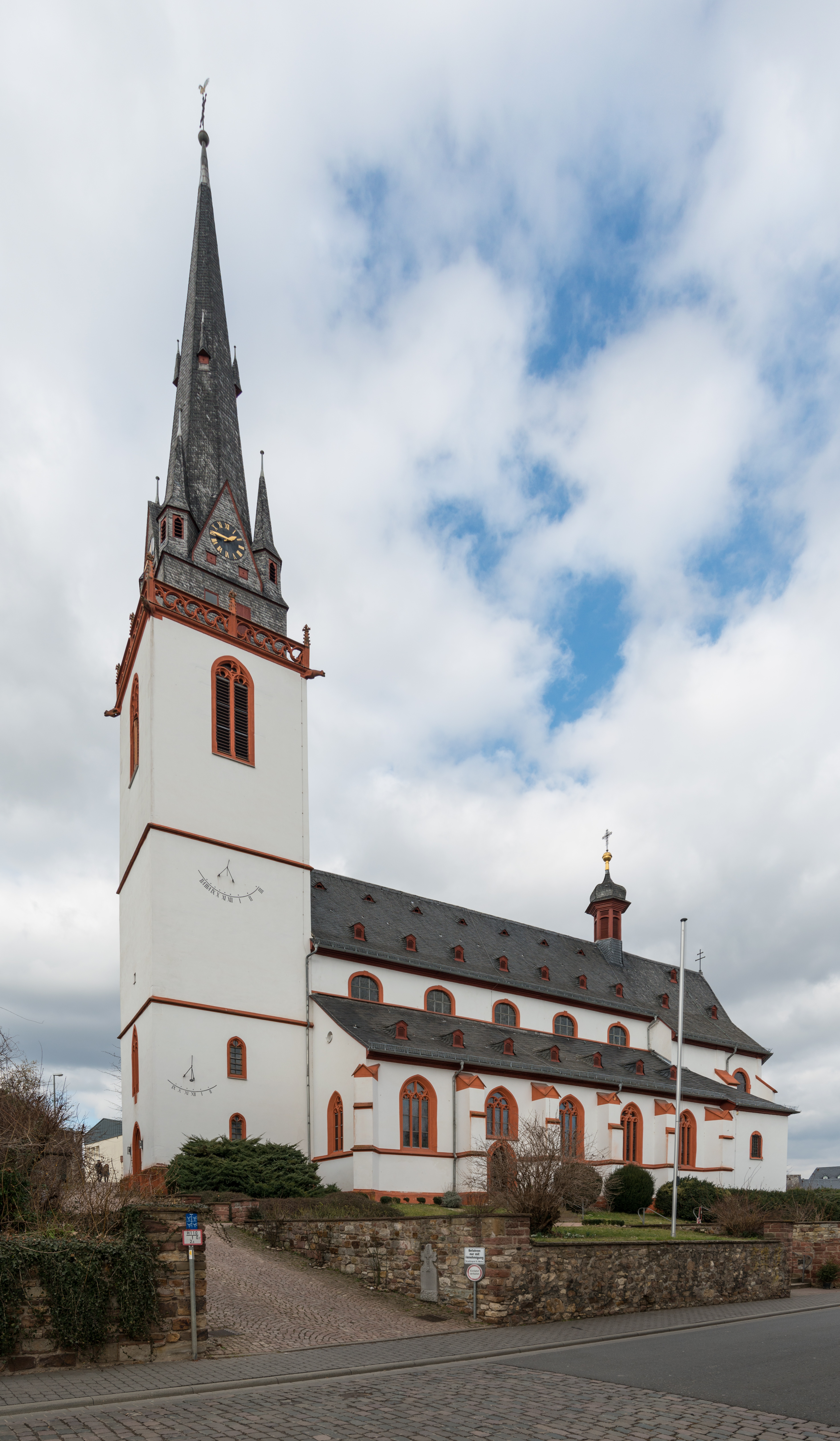 A south view of St. Markus in Erbach